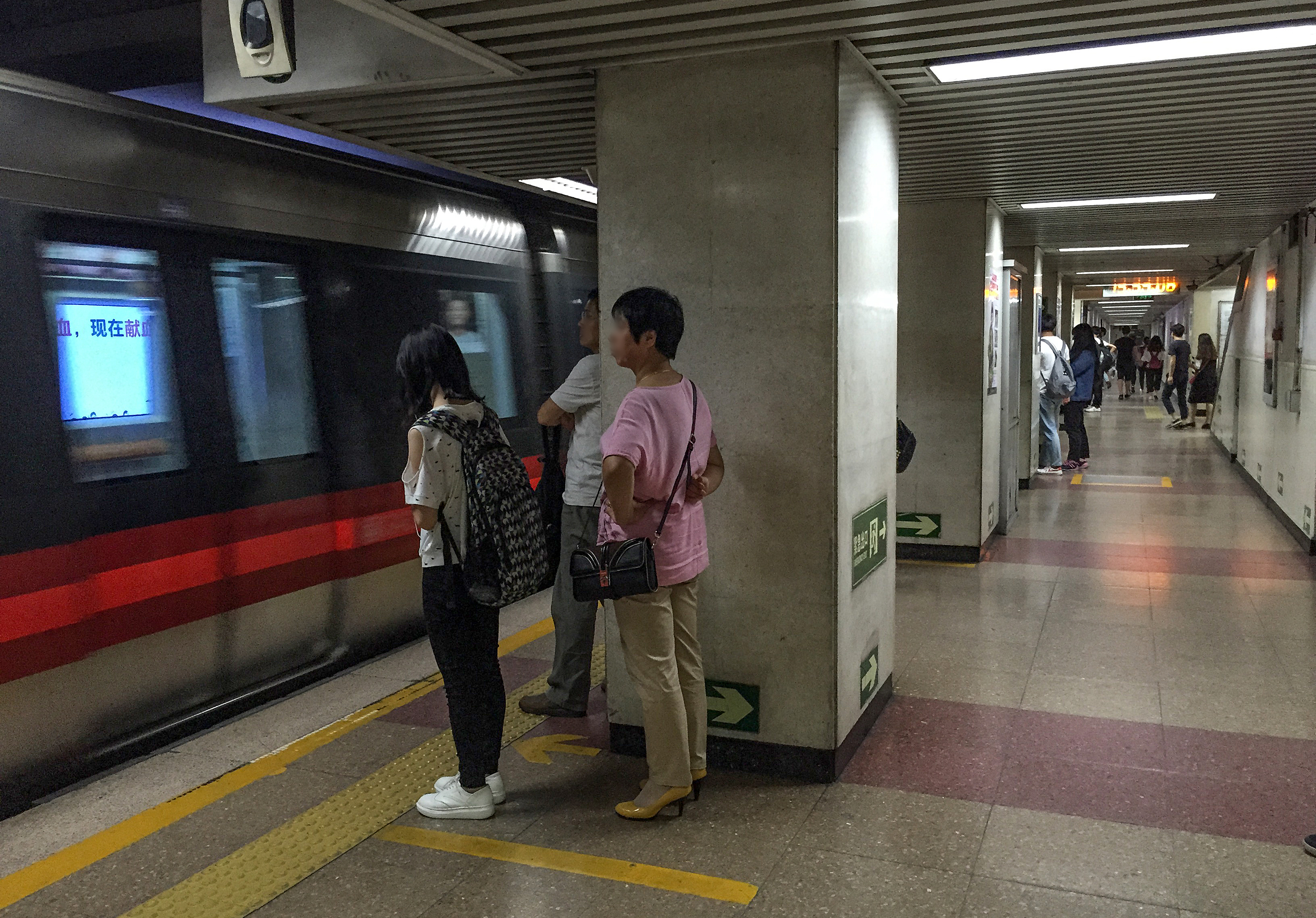 The last one without screen doors or platform gates. This old station is too narrow for a panorama!